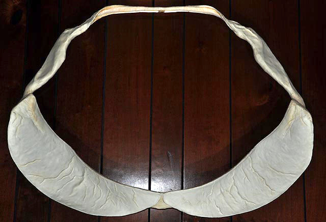 Rhincodon typus